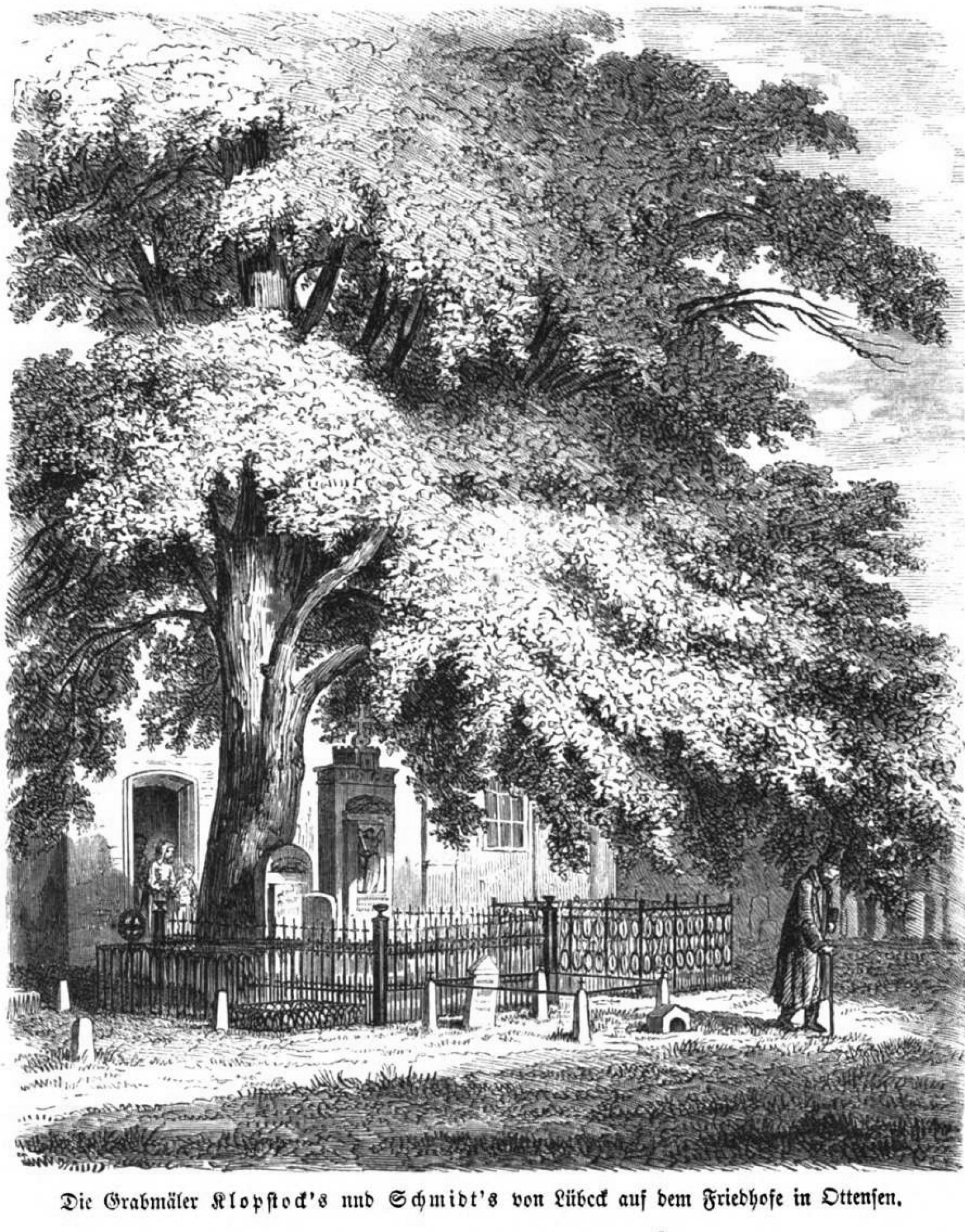 no caption